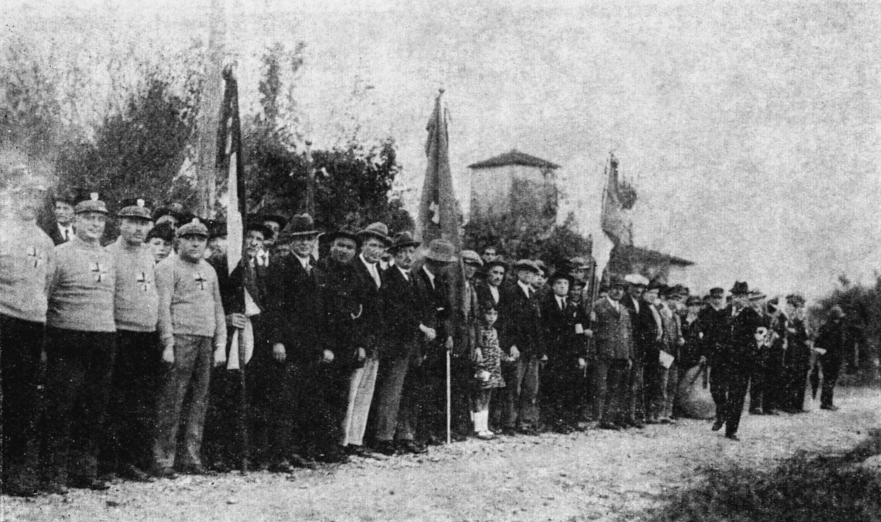 L'inaugurazione Dell'Autostrada Firenze - Mare (1928). L'Associazione dovette partecipare alle organizzazioni rionali del regime